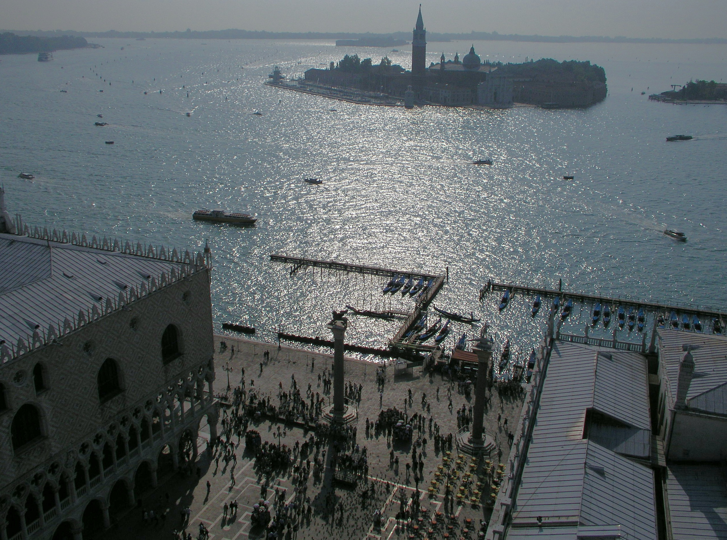 View from Campanila San Marco - southeast, Venice, Italy